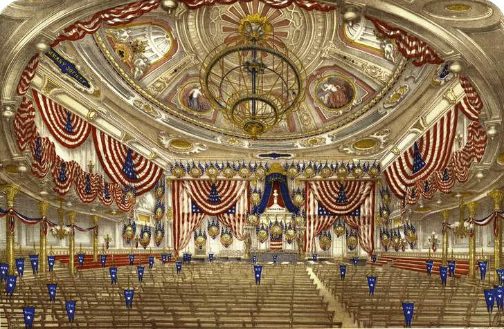 "Interior view of Tammany Hall decorated for the National Convention July 4th, 1868"